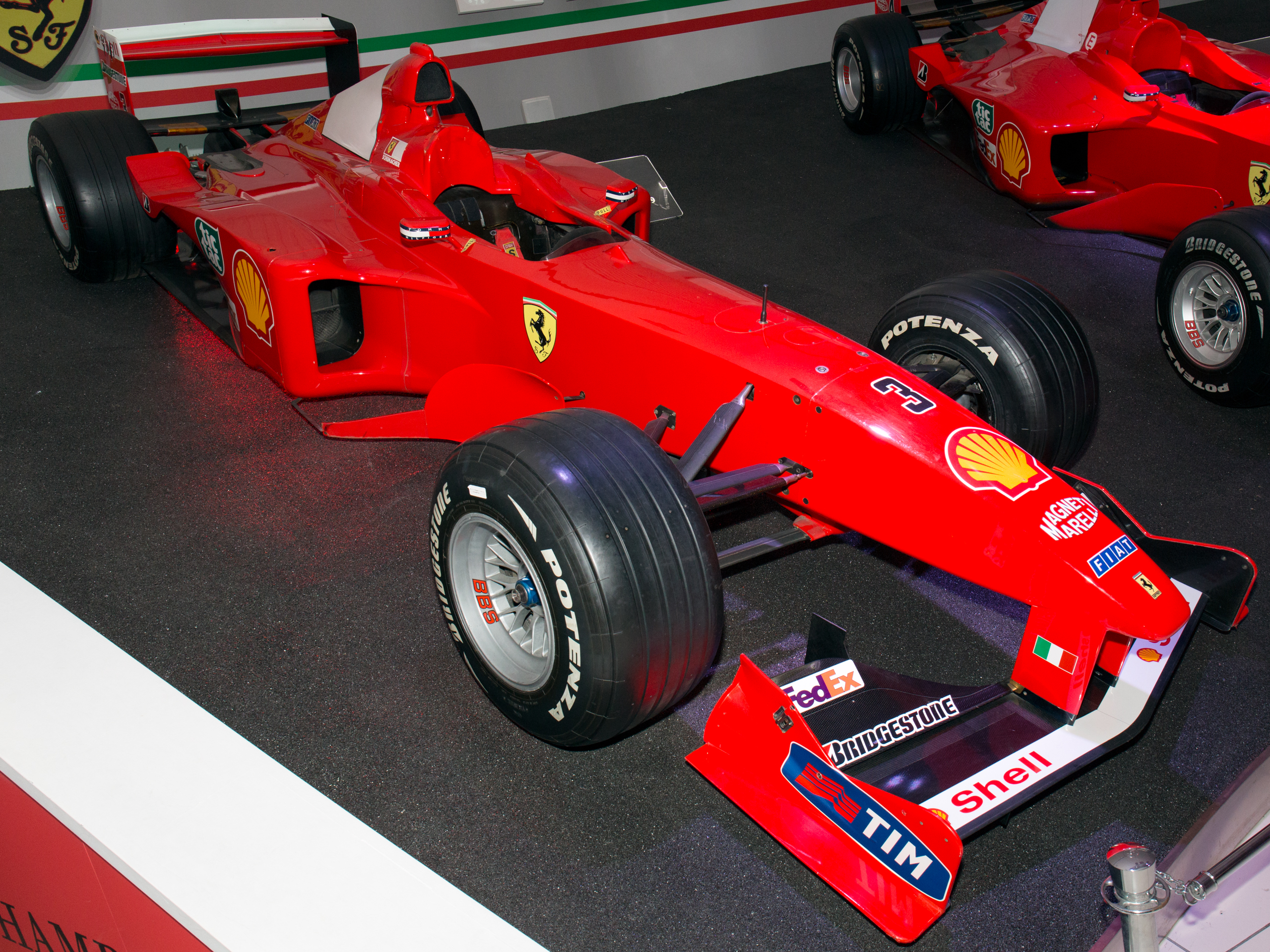 Ferrari F399